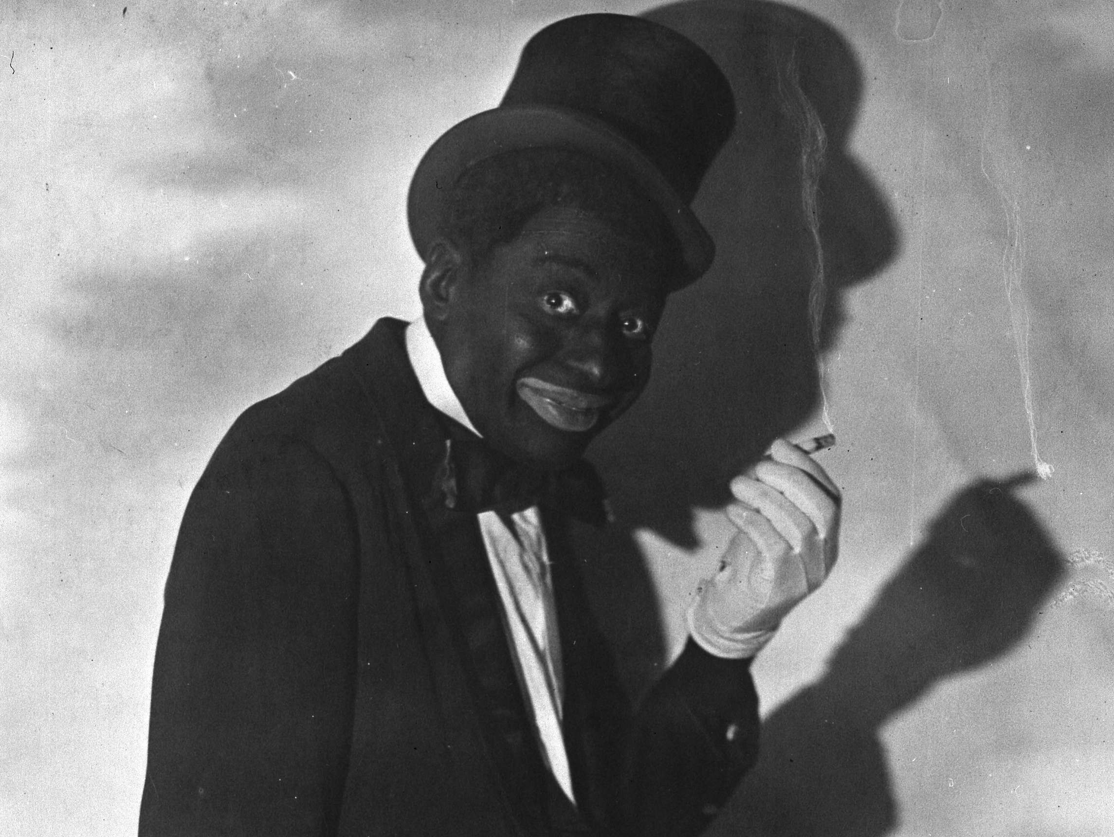 Photo portrait of Vaudeville star Bert Williams in blackface with cigarette; cropped from original